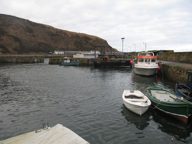 Harbour at Burnmouth